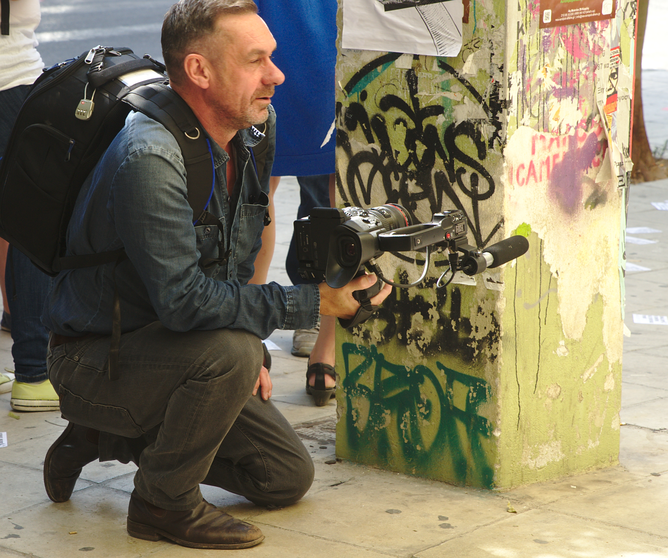 Paul Mason on the job waiting for Zoe Konstantopoulou to arrive at a polling center in Athens during Greek elections, Sept 20 2015